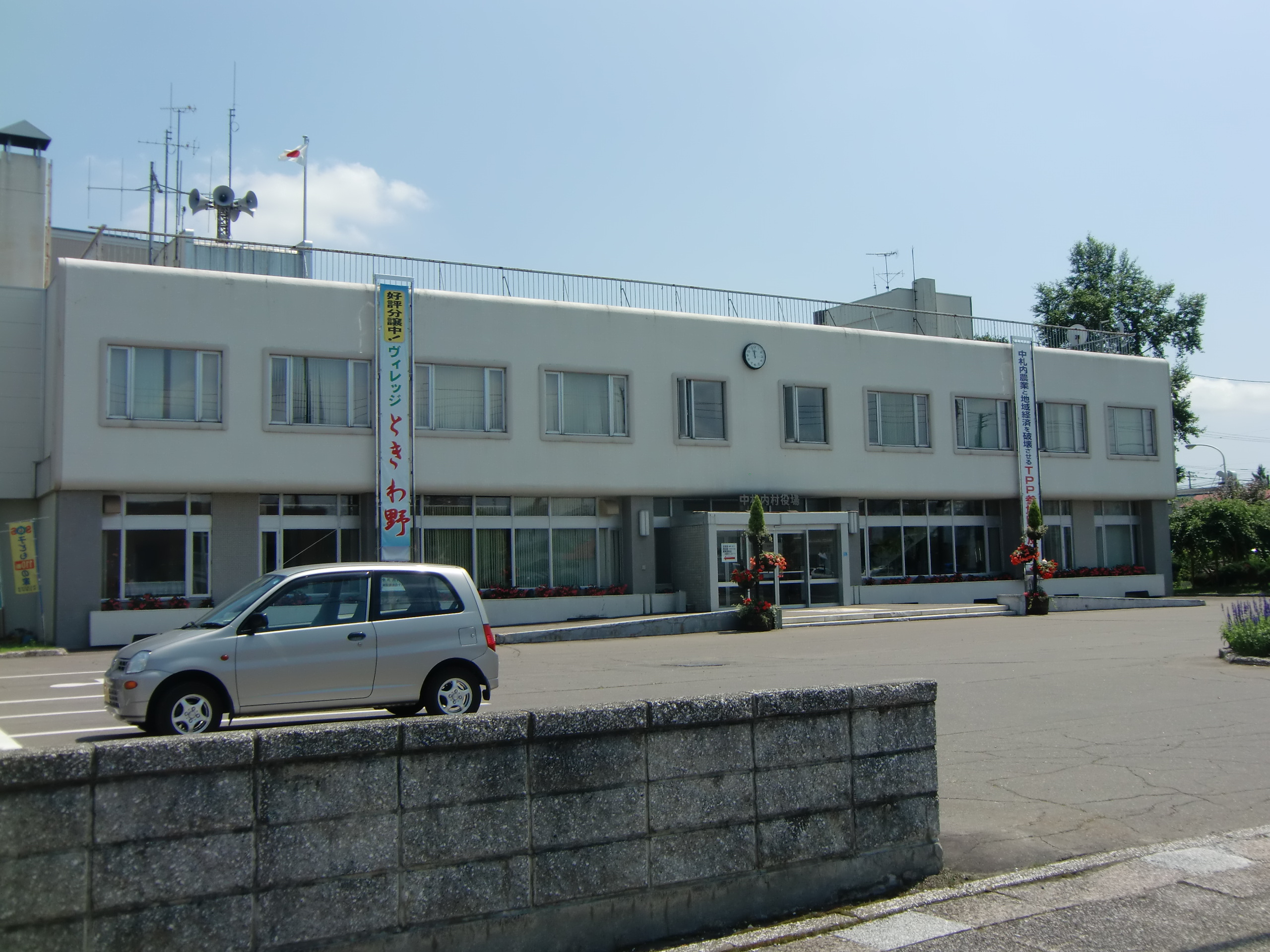 Nakasatsunai village office in Nakasatsunai-vill, Kasai-county, Hokkaido, JAPAN.